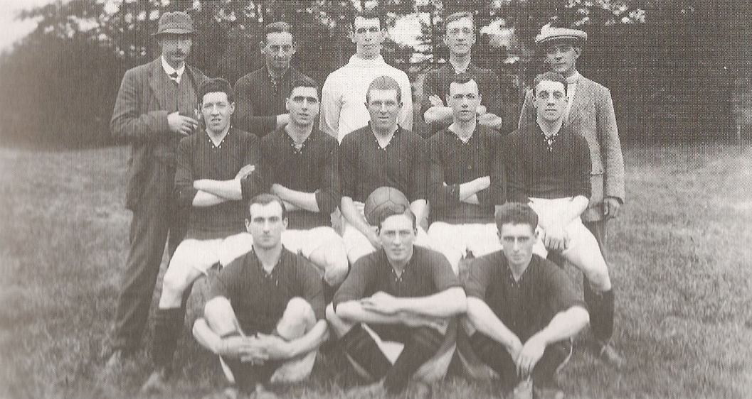 The York City team line-up before the side's first home game on 9 September 1922.